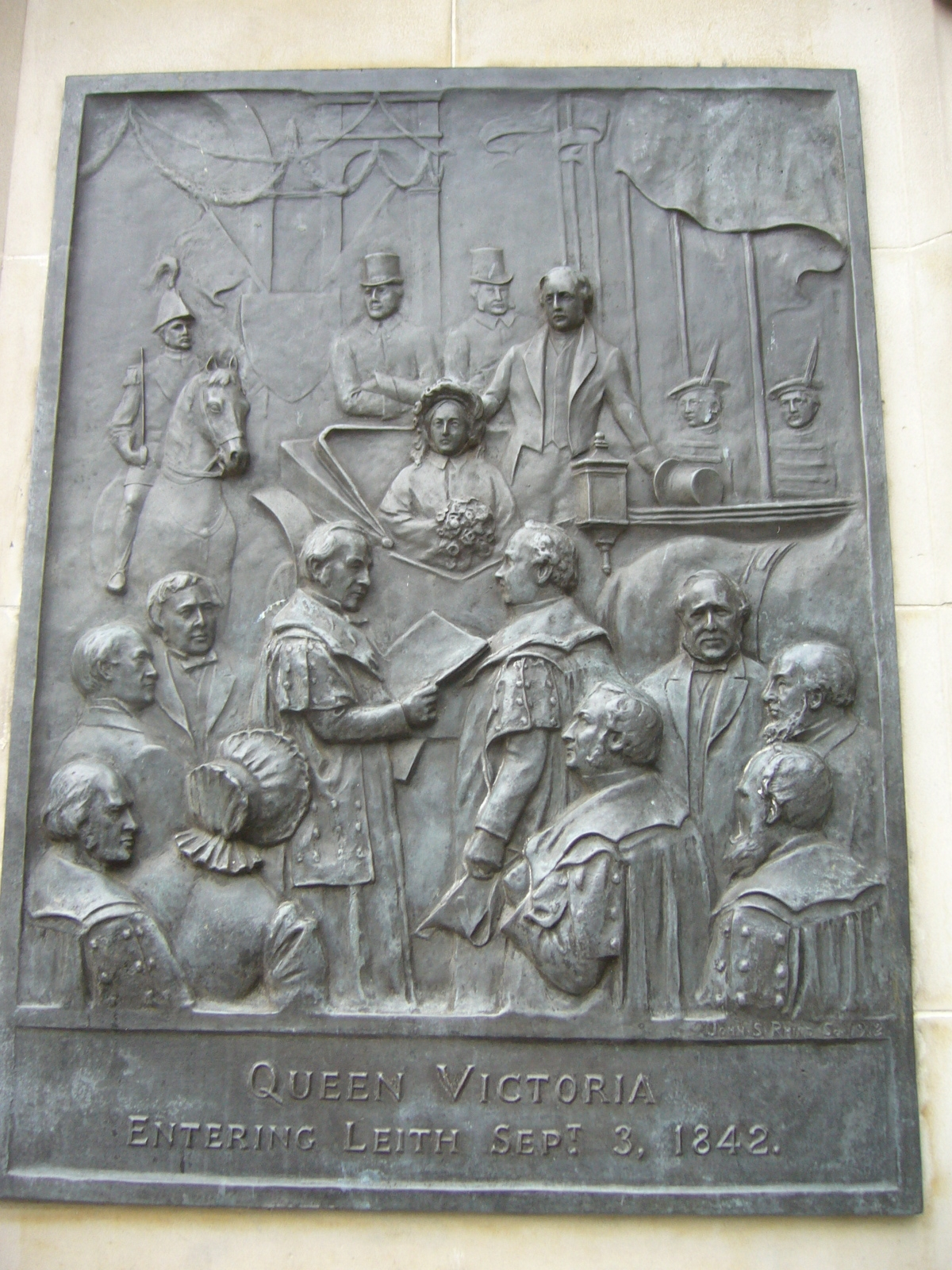 The Provost and Council of Leith welcome Queen Victoria on her royal visit to Scotland in 1842.